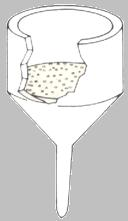 Büchner funnel